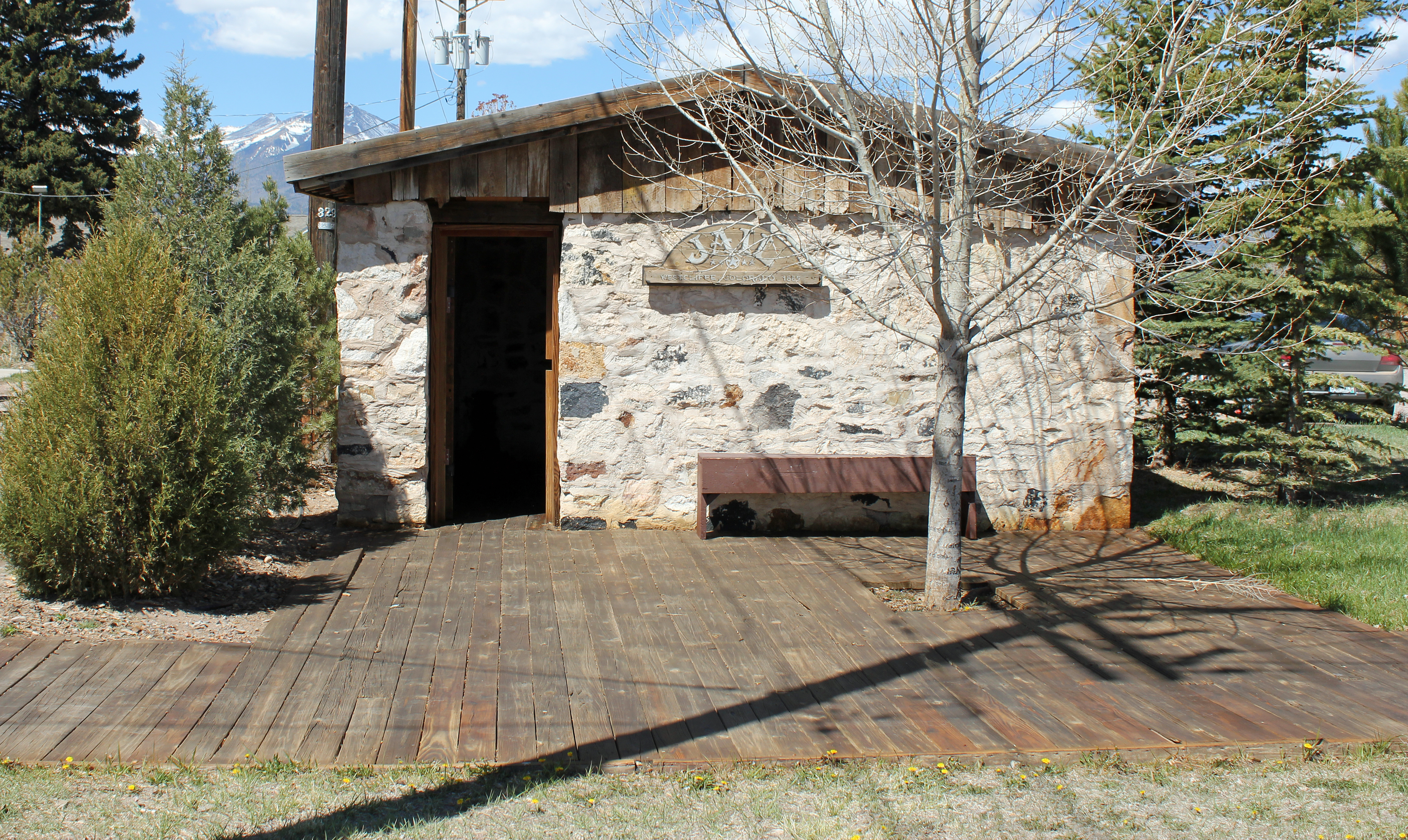 The Westcliffe Jail, located at 116 2nd Street in Westcliffe, Colorado. The jail is listed on the National Register of Historic Places.